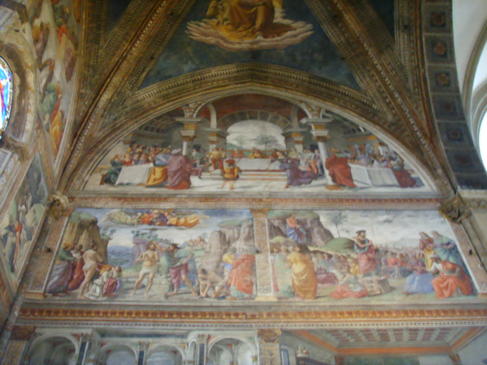 Santa Maria Novella church in Florence (Italy), Tornabuoni Chapel, frescos by Domenico Ghirlandaio.